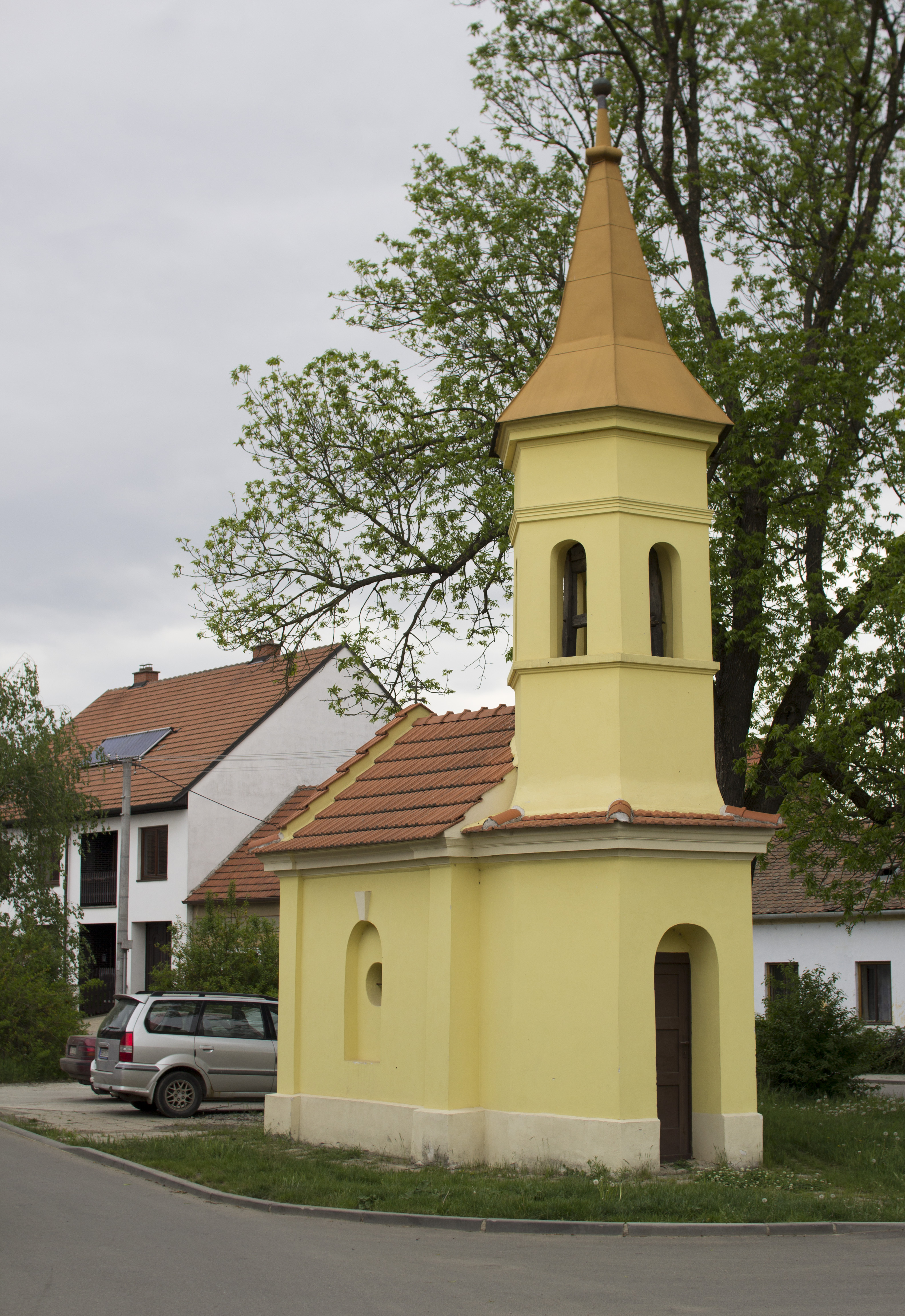 Chaple, Němčice, Ivančice, Brno-Country District, South Moravian Region, Czech Republic